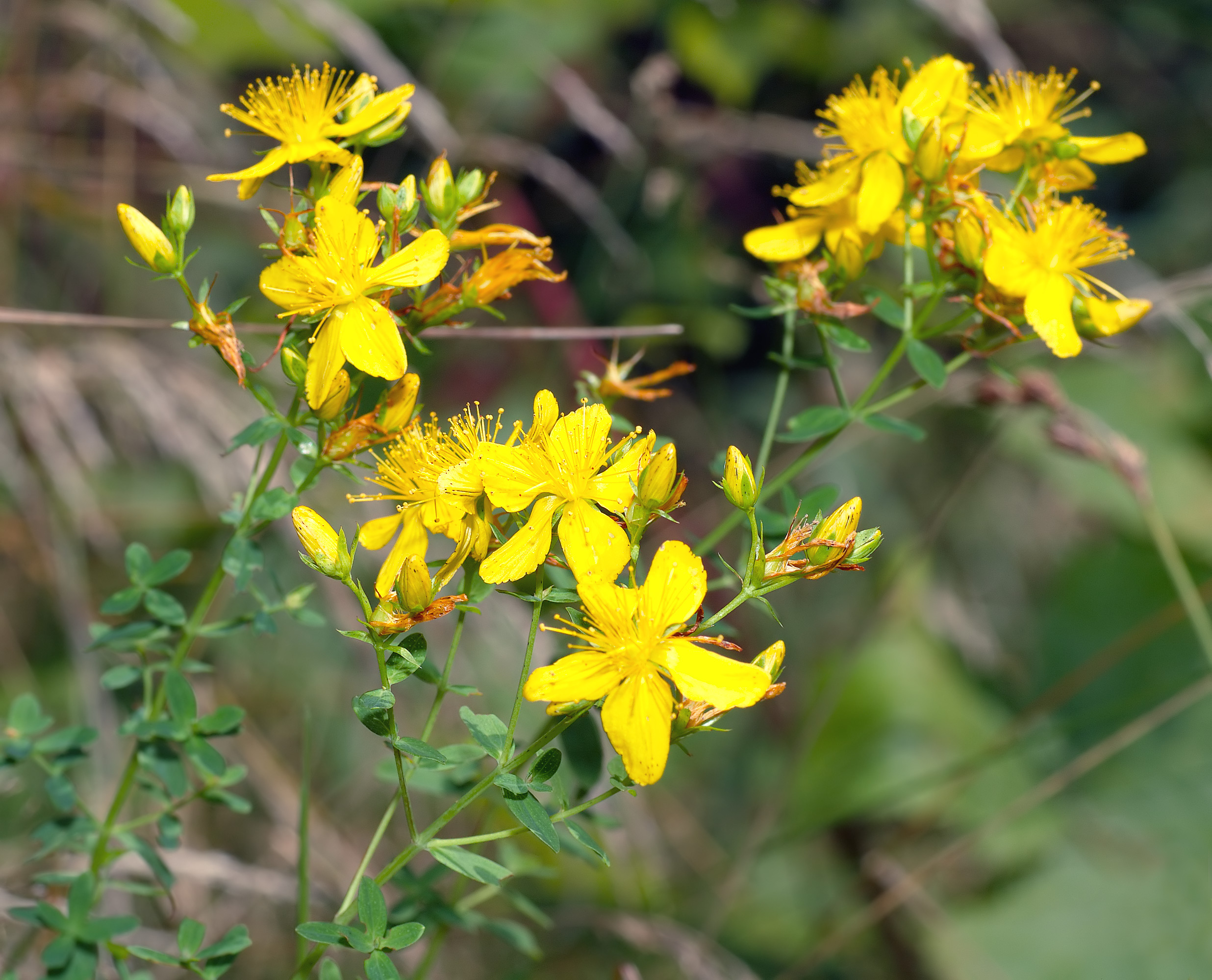 This image shows a cf. St. John's wort (Hypericum perforatum).